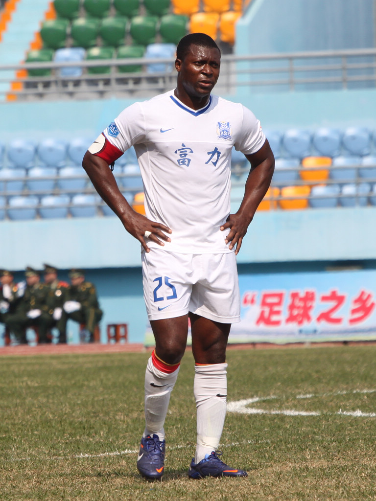 Nigerian footballer Yakubu played for Guangzhou R&F in 2013.